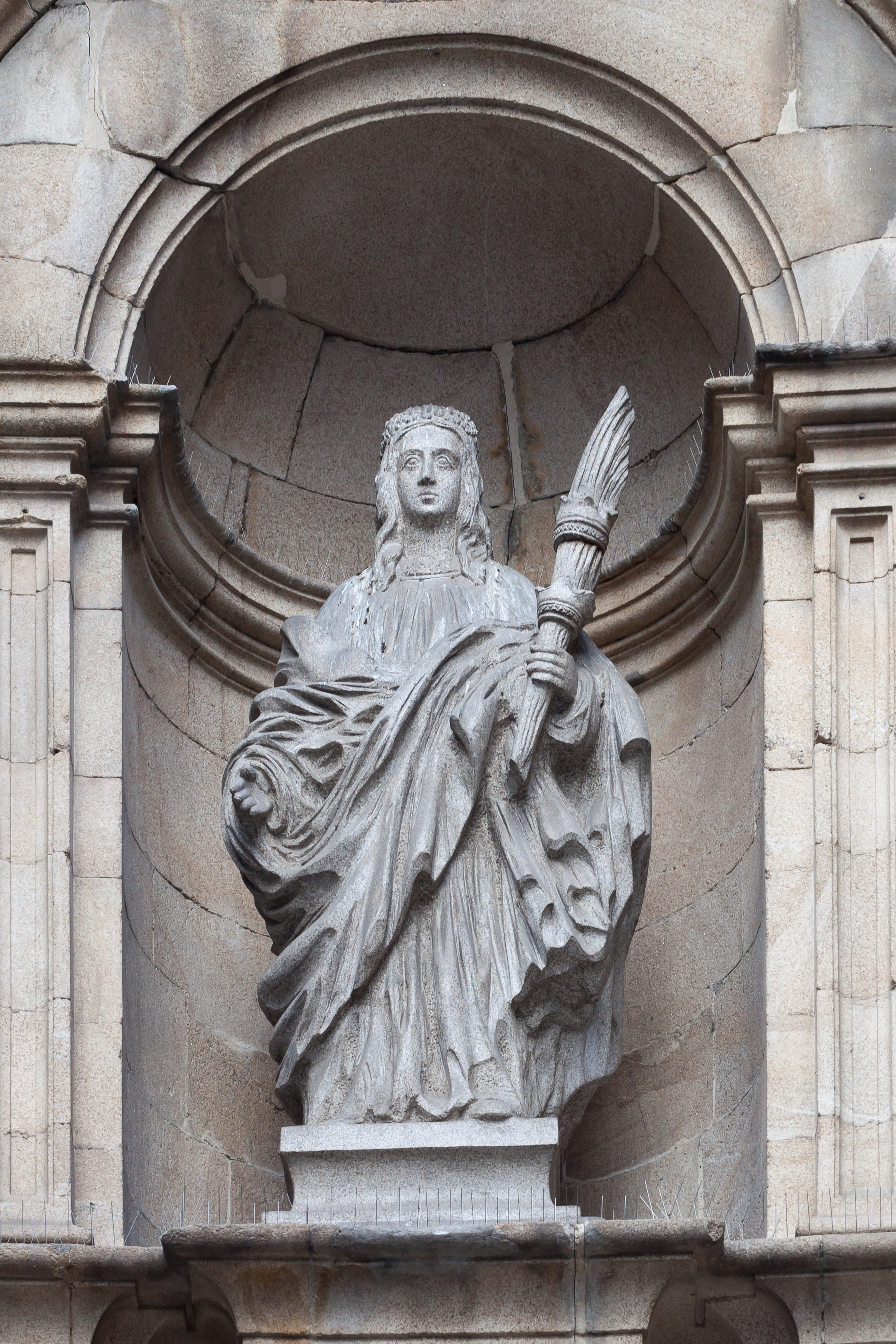 Sculpture in Ourense, Galicia (Spain). Church of Saint Eufemia.